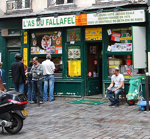 L'As du Fallafel, a restaurant in Rue des Rosiers, Paris, 4th I took this photo. I hereby release it into the public domain as you can see below.